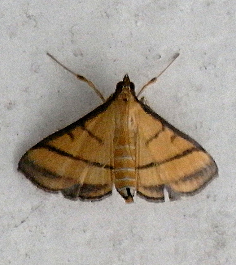 Rice Leaf Roller moth (Cnaphalocrocis medinalis) on a building wall in Canungra, Queensland, Australia.